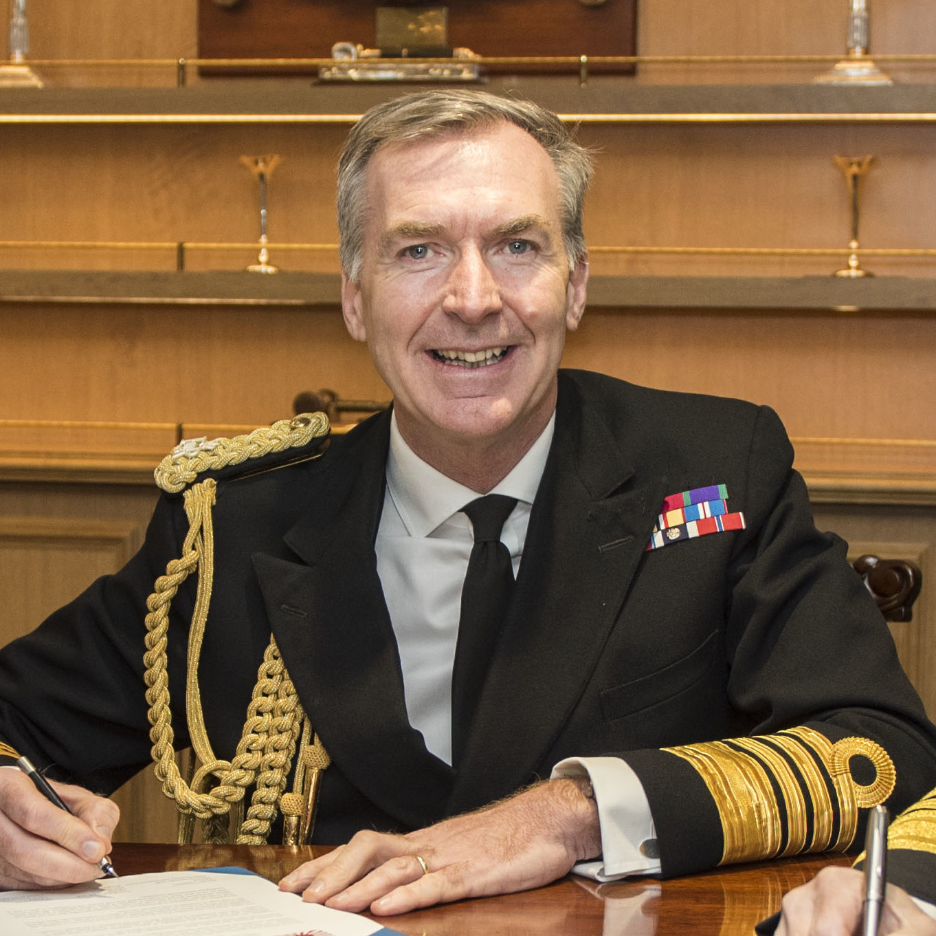 ANNAPOLIS, Md. (Nov. 20, 2019) Chief of Maritime Staff Adm. Hiroshi Yamamura, left, First Sea Lord Adm. Tony Radakin, and Chief of Naval Operations (CNO) Adm. Mike Gilday sign a Trilateral Head of Navy Joint Statement aboard the Royal Navy aircraft carrier HMS Queen Elizabeth (R08). The trilateral cooperation agreement reaffirms the three countries’ commitment to increased collaboration and cooperation.